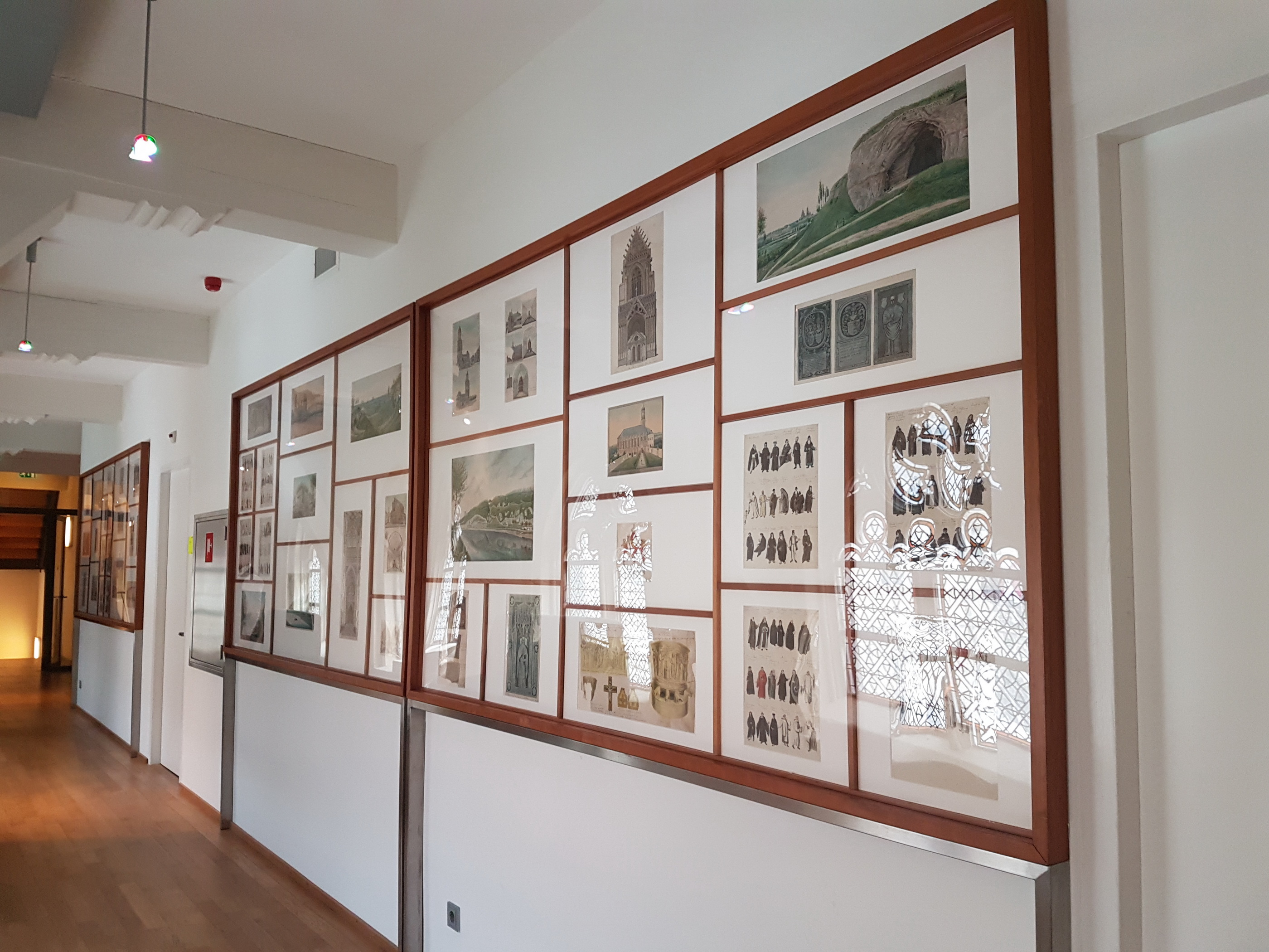 View of a display of 19th-century drawings by Philippe van Gulpen in a first floor corridor in the cloisters of the Kruisherenklooster in Maastricht, the Netherlands. The Gothic Monastery of the Crutched Friars dates from the 15th century and in 2005 was converted into a luxury hotel, the Kruisherenhotel. The drawings and aquarels by Van Gulpen were collected by the hotel owner Camille Oostwegel.